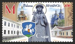 Towns of Belarus. Sluck.